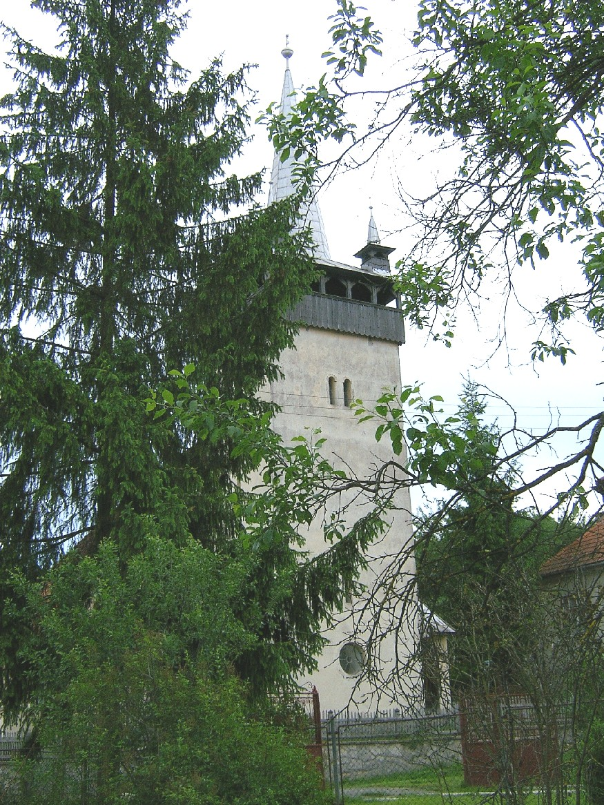 Reformated church of Tetişu, Transylvania